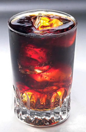 Caramel Color in cola